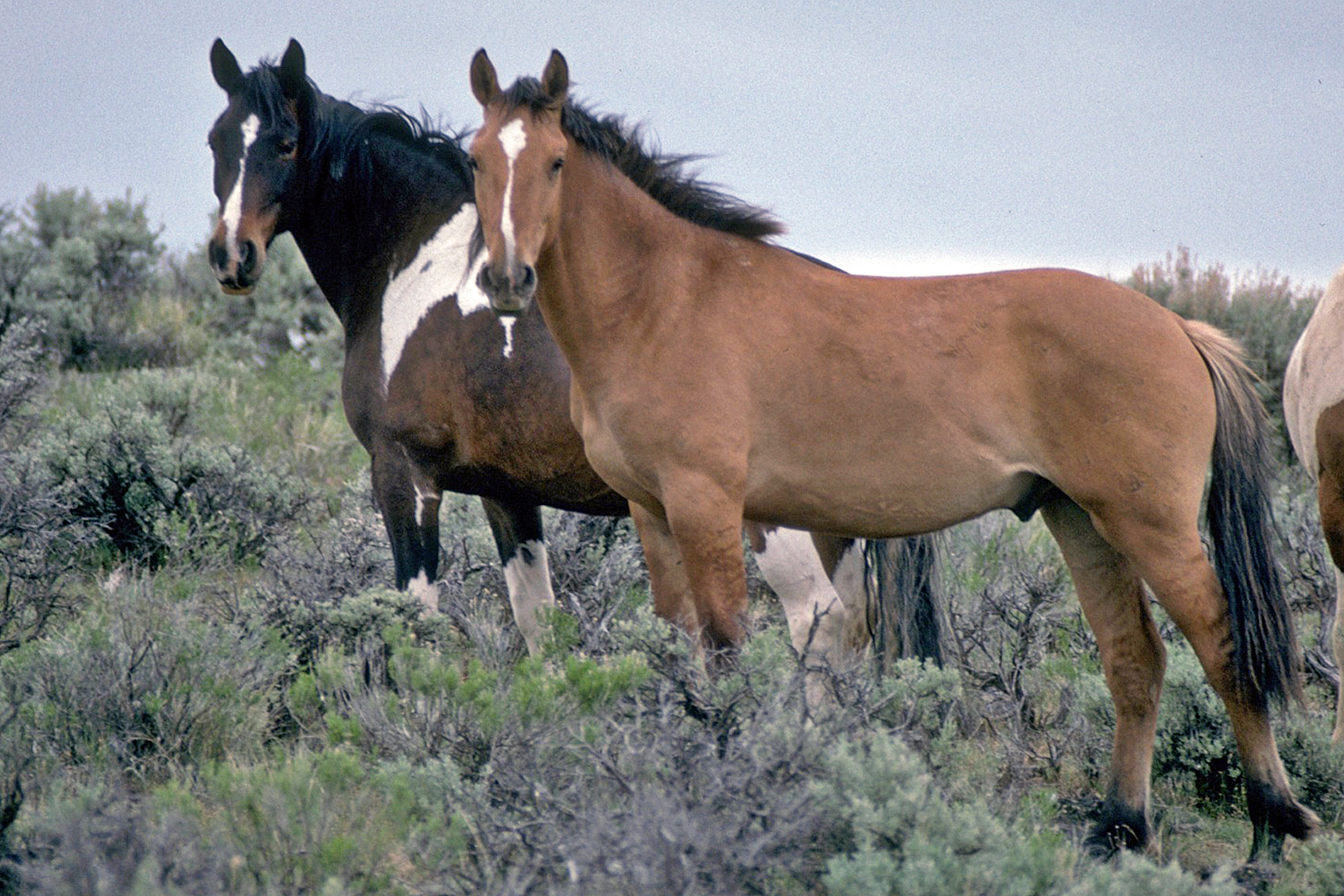 The Steens Mountain Cooperative Management and Protection Area (CMPA) contains 428,156 acres of public land offering diverse scenic and recreational experiences. The CMPA encompasses an extraordinary landscape with deep glacier carved gorges, stunning scenery, wilderness, wild rivers, a rich diversity of plant and animal species, and a way of life for all who live there. The 52-mile Steens Mountain Backcountry Byway provides access to four campgrounds and the views from Kiger Gorge, East Rim, Big Indian Gorge, Wildhorse and Little Blitzen Gorge overlooks are not to be missed!